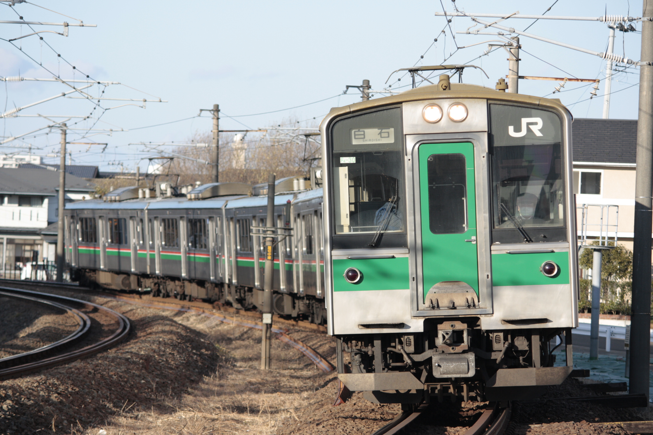 JR East 701-1000 series EMU on the Tohoku Main Line between Sendai and Nagacho